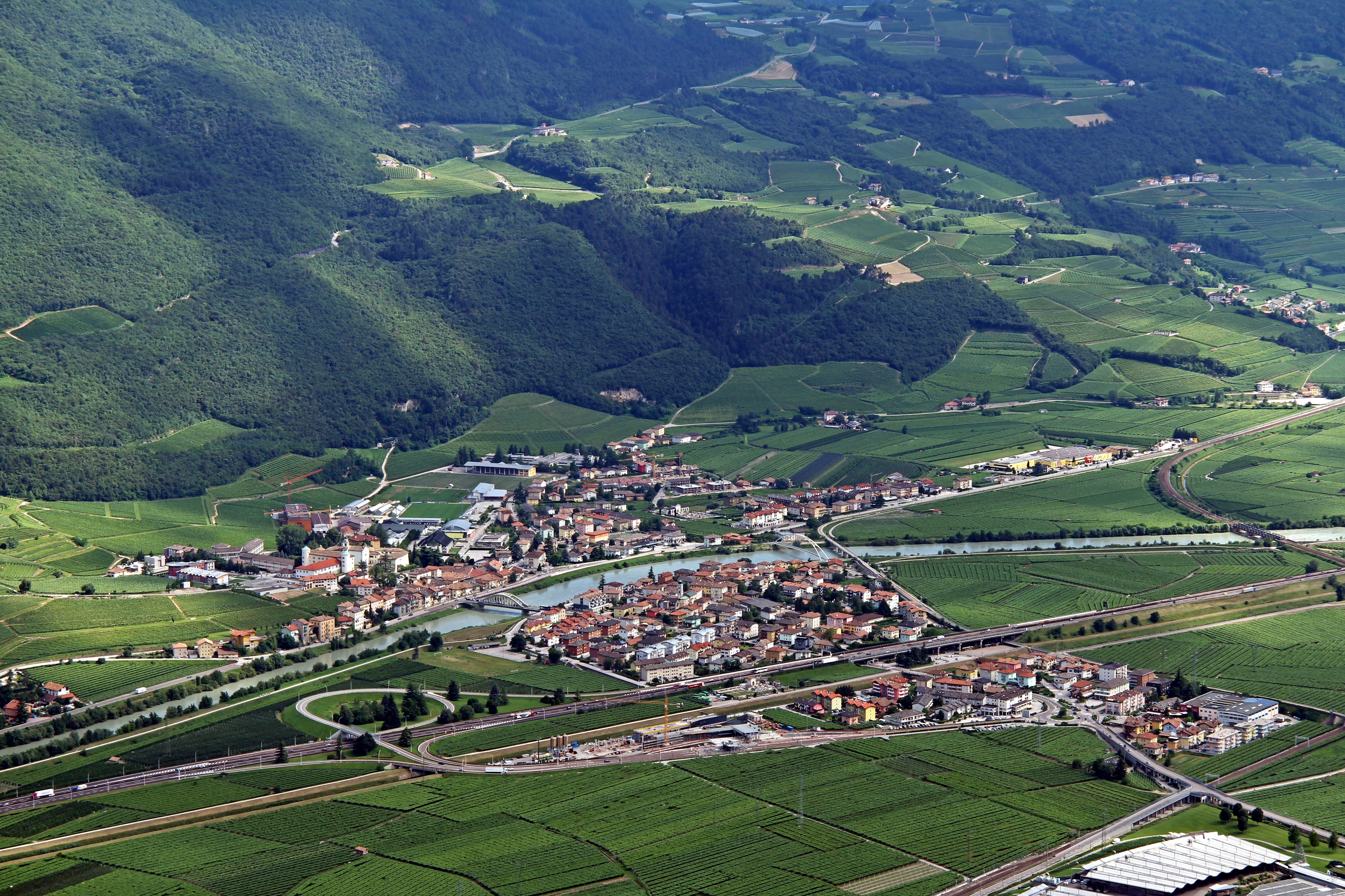 San Michele all'Adige (Italy): panoramic view of San Michele all'Adige from the upper station of the Mezzocorona cableway.